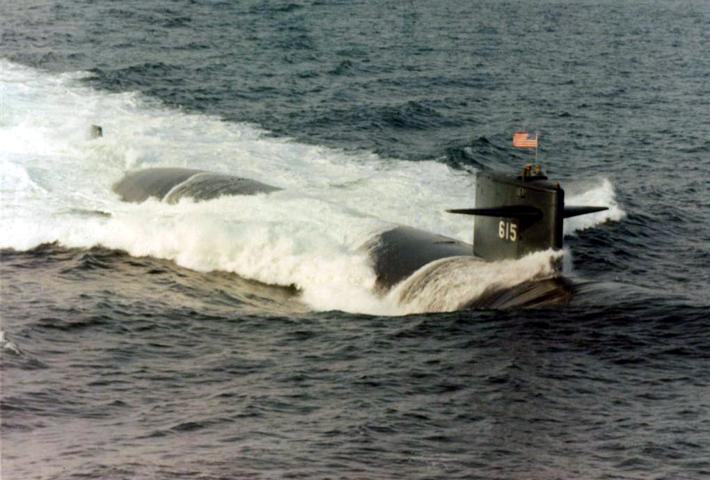 USS Gato (SSN-615) official Navy photo. Category: Permit class submarines